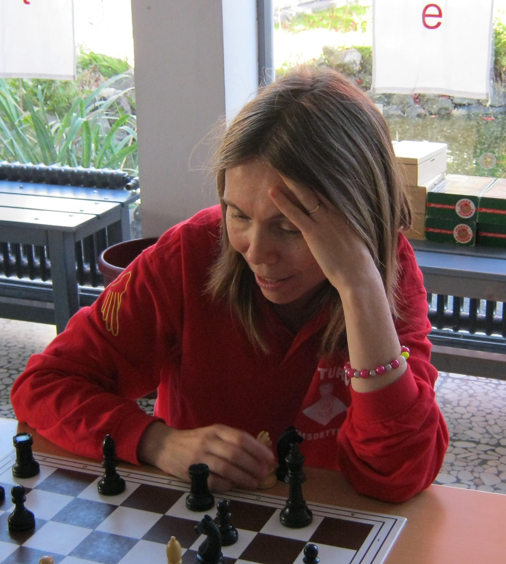 Pia Cramling, chess grandmaster from Sweden